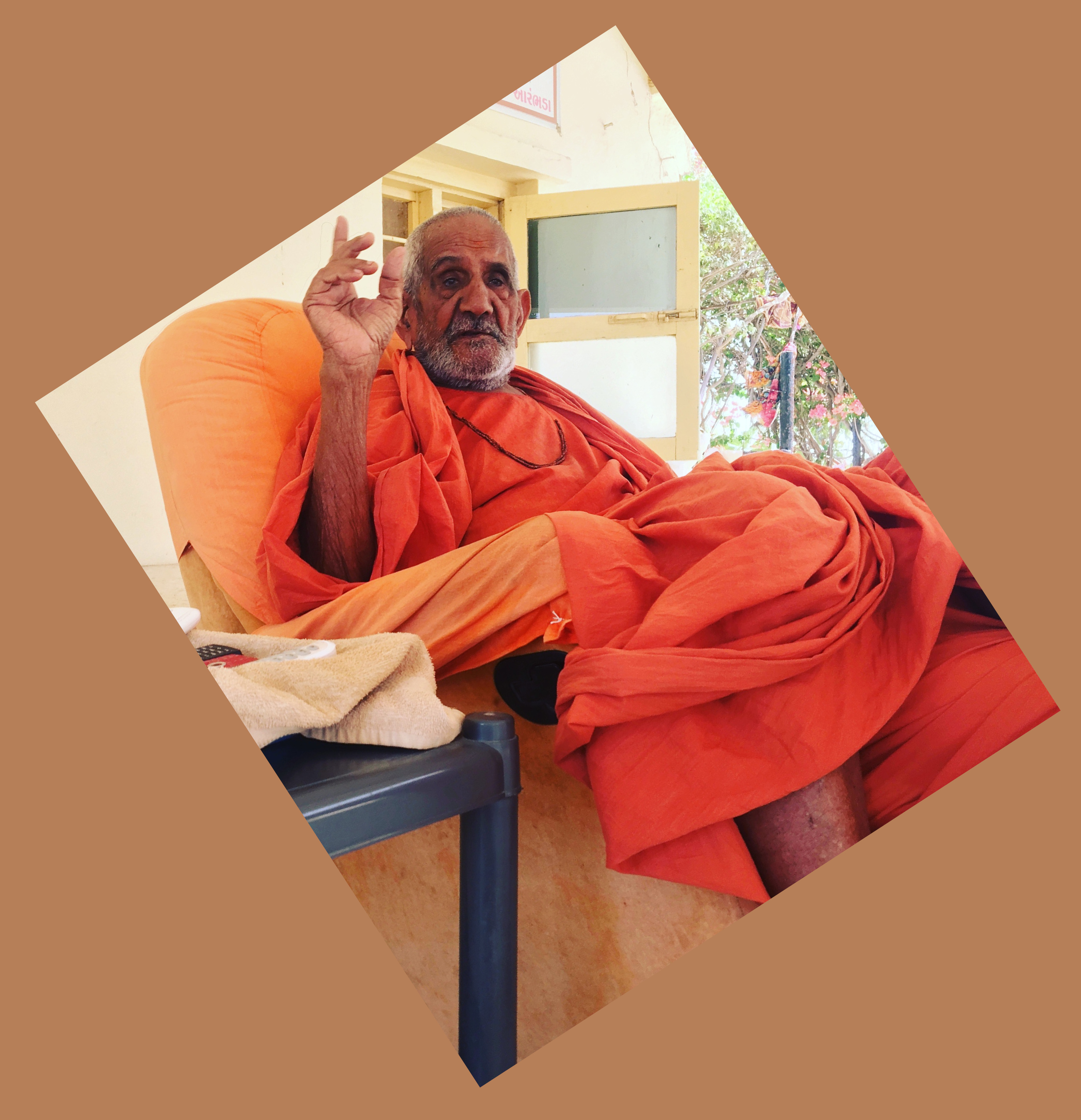 The photo is taken by me and it is not copyrighted by anyone